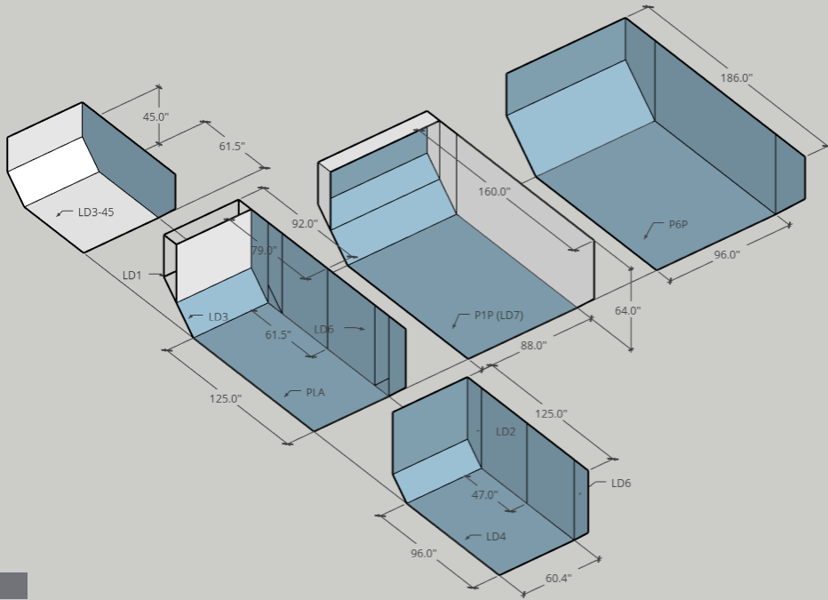 Unit load device sizes, model available in sketchup's 3D Warehouse